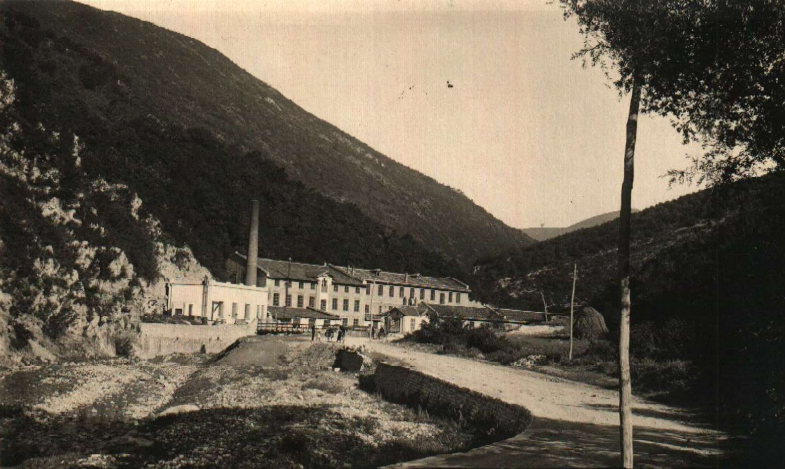 Iliya Kalov factory, Sliven, Bulgaria